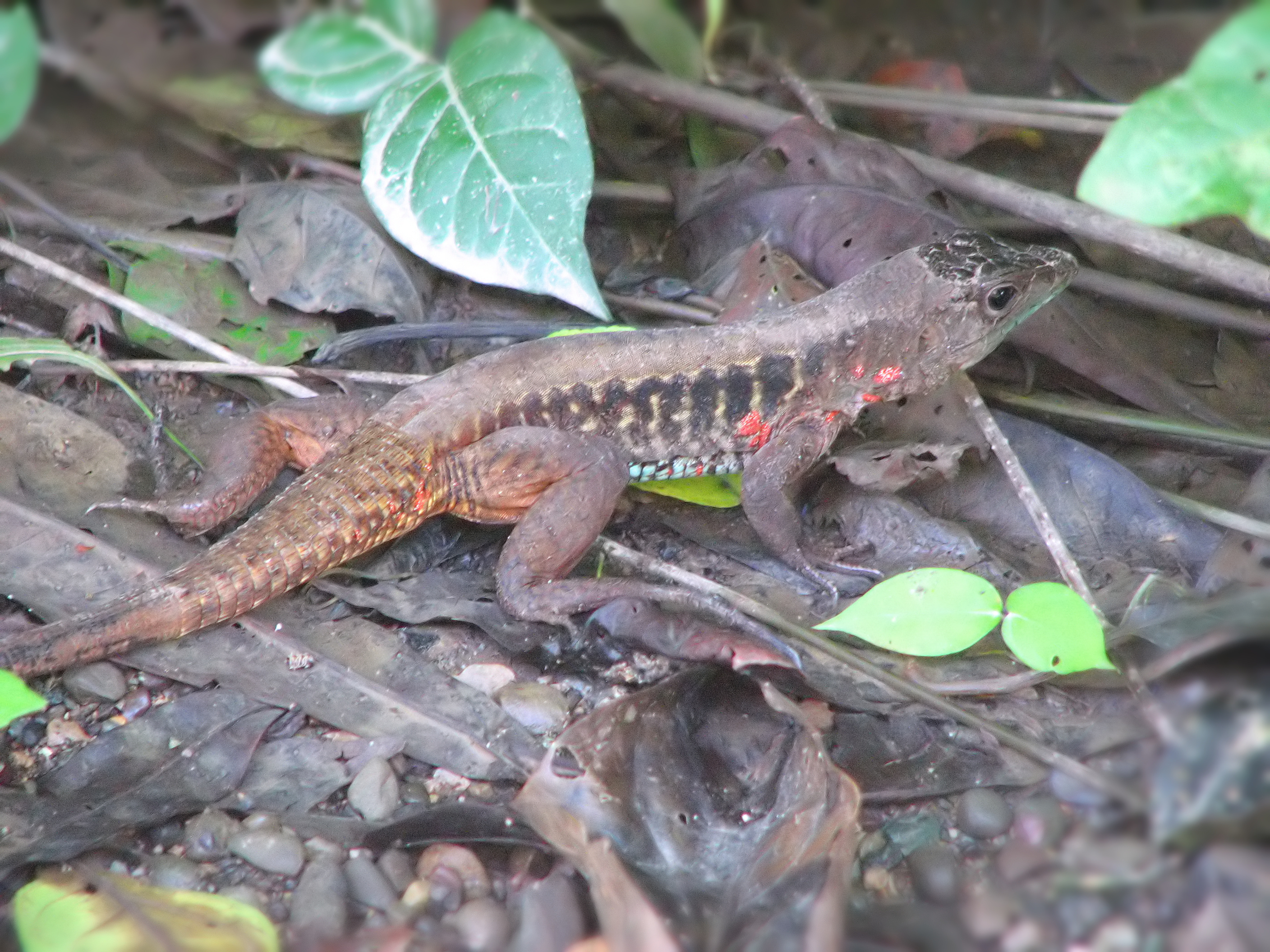 Rainbow Ameiva (Ameiva undulata), Manuel Antonio Park, Costa Raica